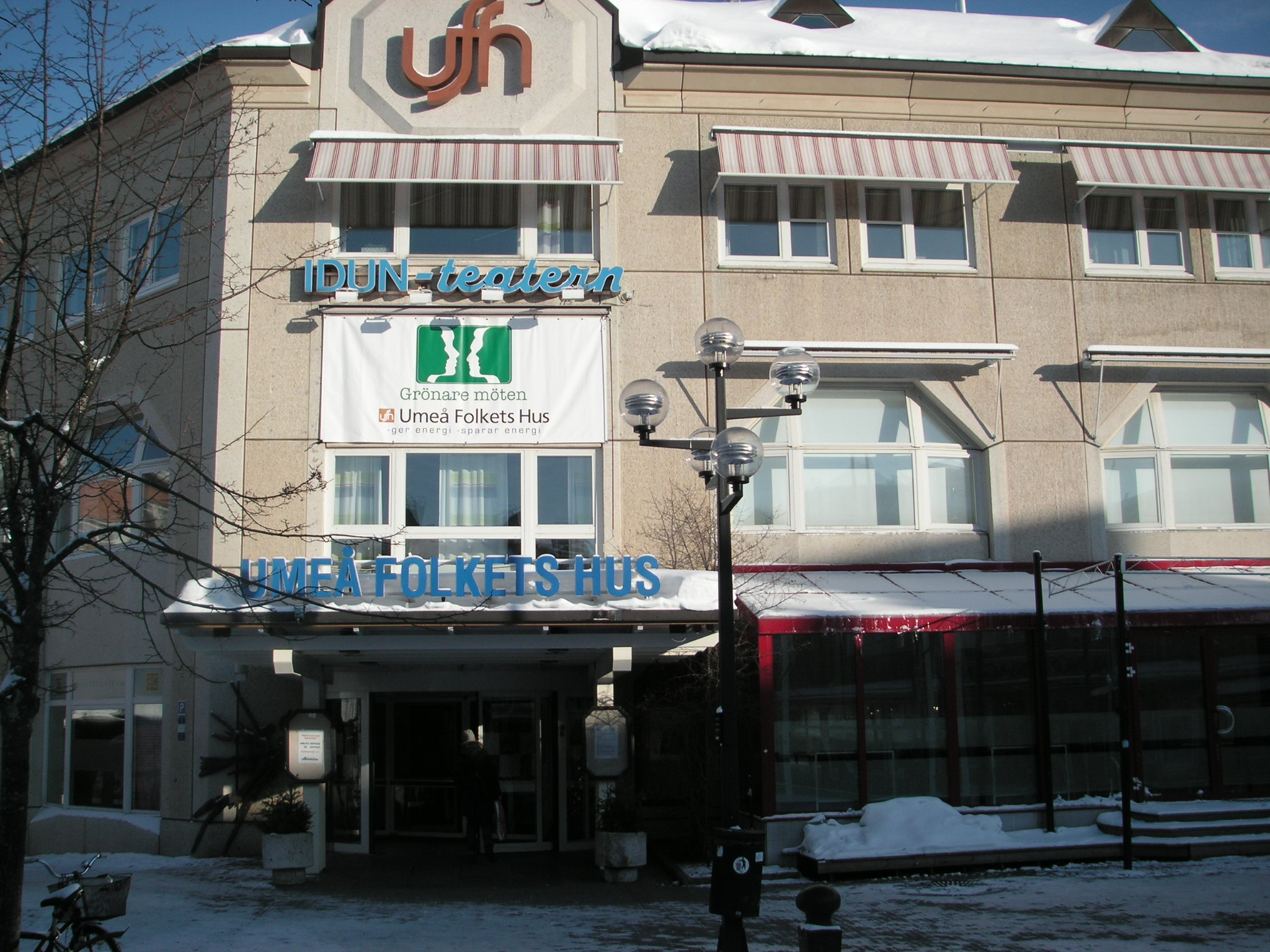 "Folkets hus" in Umeå, Sweden.